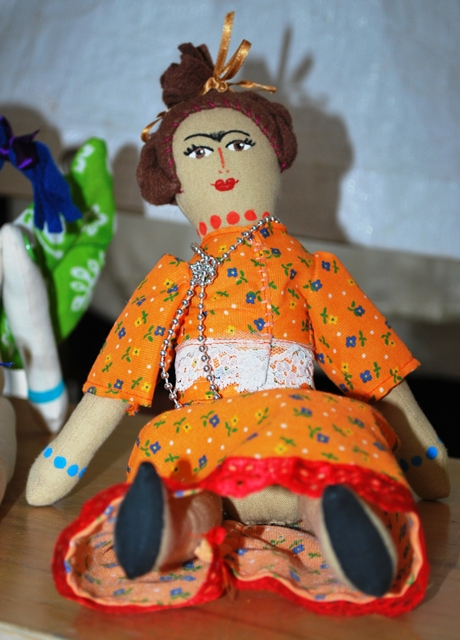 Doll created by Ana Karen Allende of Retacitos